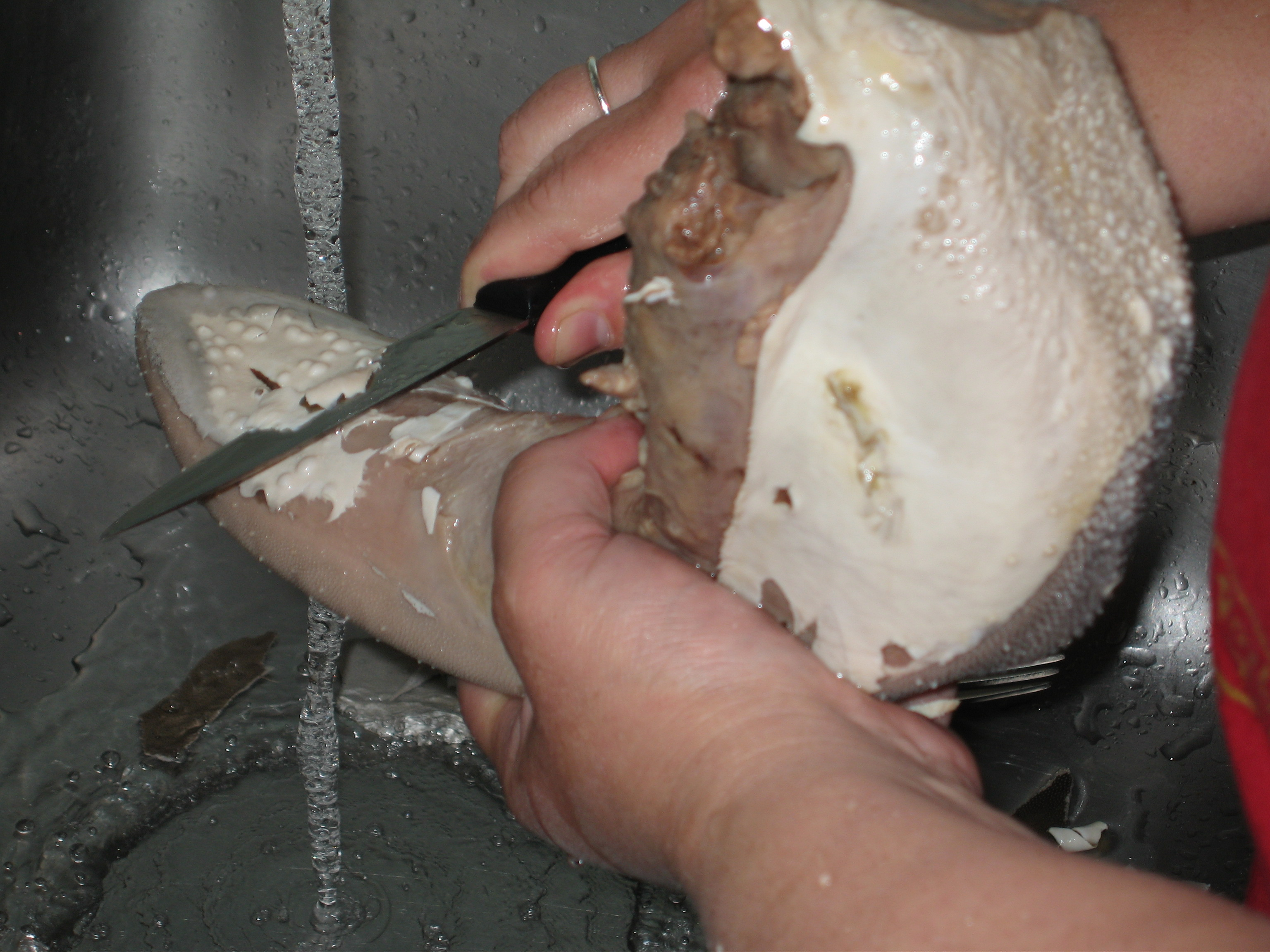 description:Cooked beef tongue. photographer: Charles Haynes flickr_url: [1]